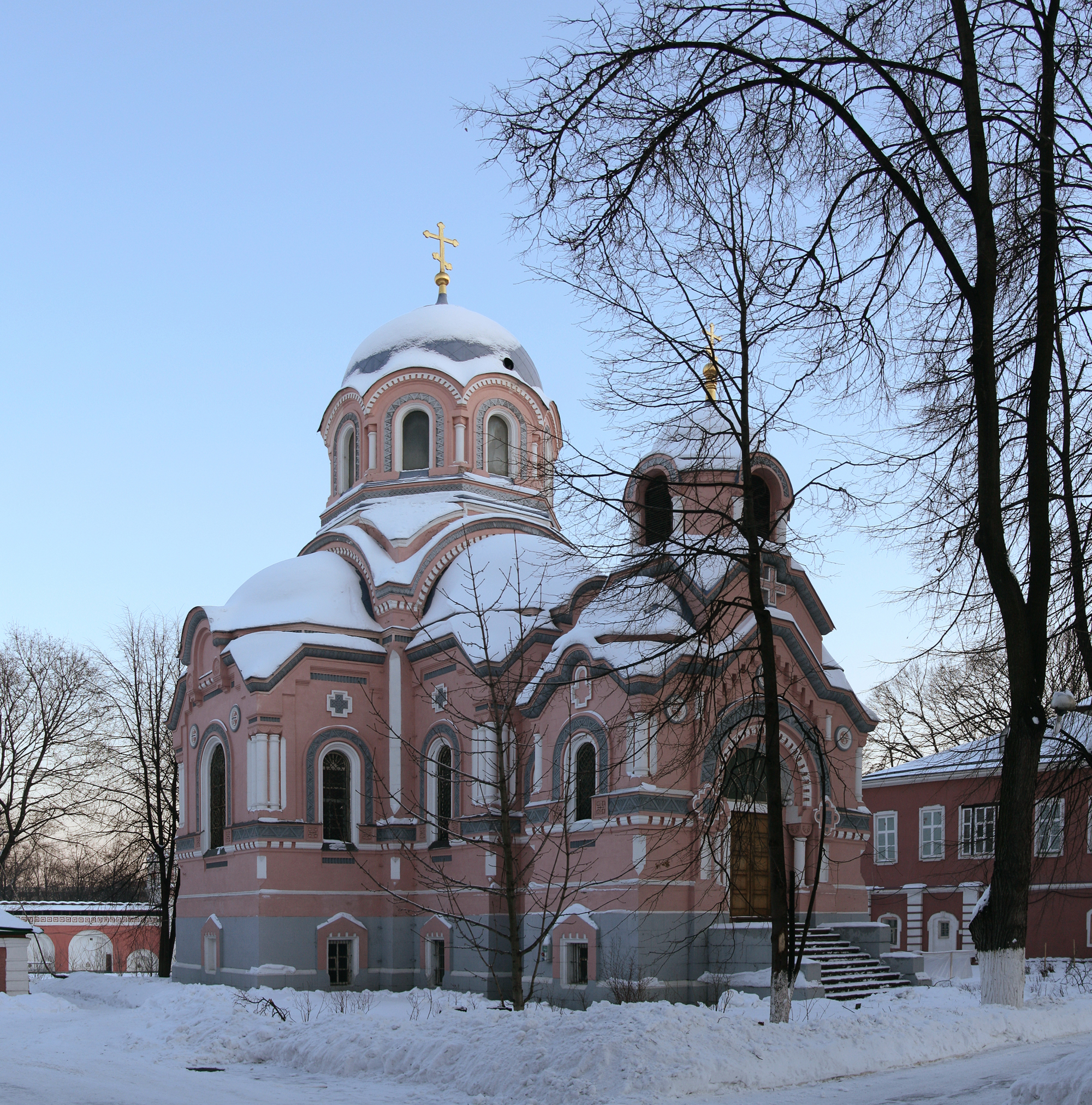 Saint John Chrysostom Church in Donskoy Monastery, Moscow, Russia (1888—1891)